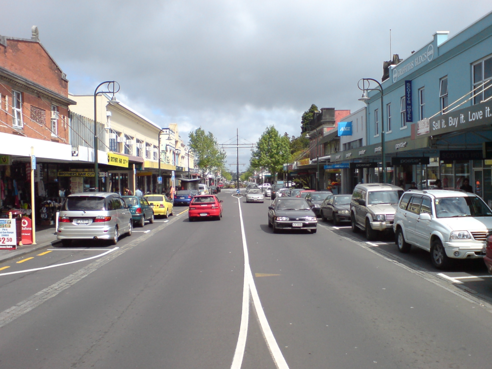 Onehunga Mall (the local main street) in Onehunga in Auckland City, New Zealand. Coordinates approximate only.